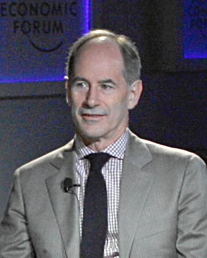 DAVOS/SWITZERLAND, 24JAN13 - Roger Martin, Dean, Joseph L. Rotman School of Management, University of Toronto, Canada; Global Agenda Council on the Role of Business and moderator Nina Easton, Senior Editor and Columnist, Fortune Magazine, USA during the session 'One-on-One - Unleashing Entrepreneurial Innovation' at the Annual Meeting 2013 of the World Economic Forum in Davos, Switzerland, January 24, 2013.. . Copyright by World Economic Forum. . Sebastian Derungs